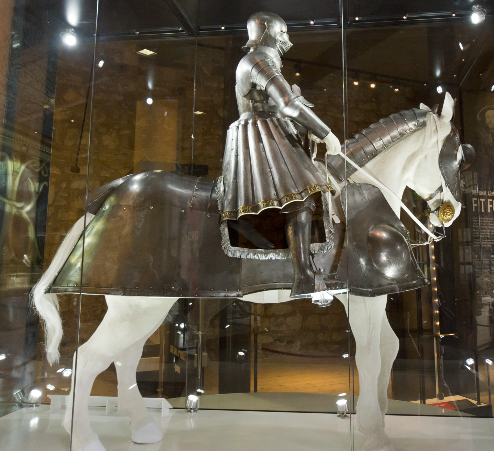 Tower of London